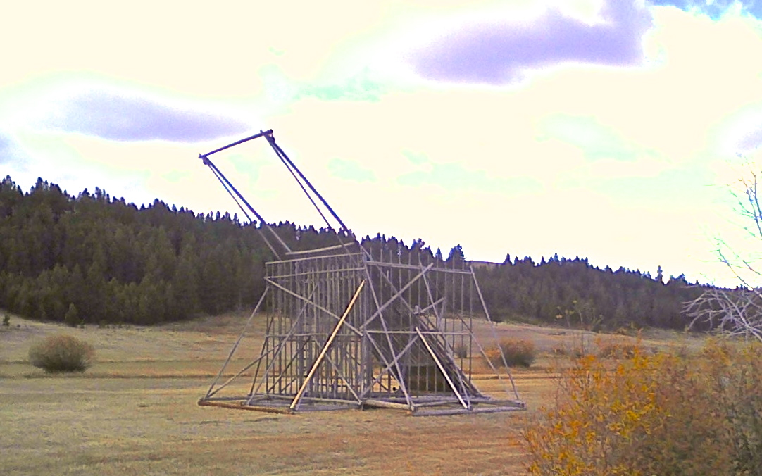 Beaverslide hay stacker, near Avon, Montana